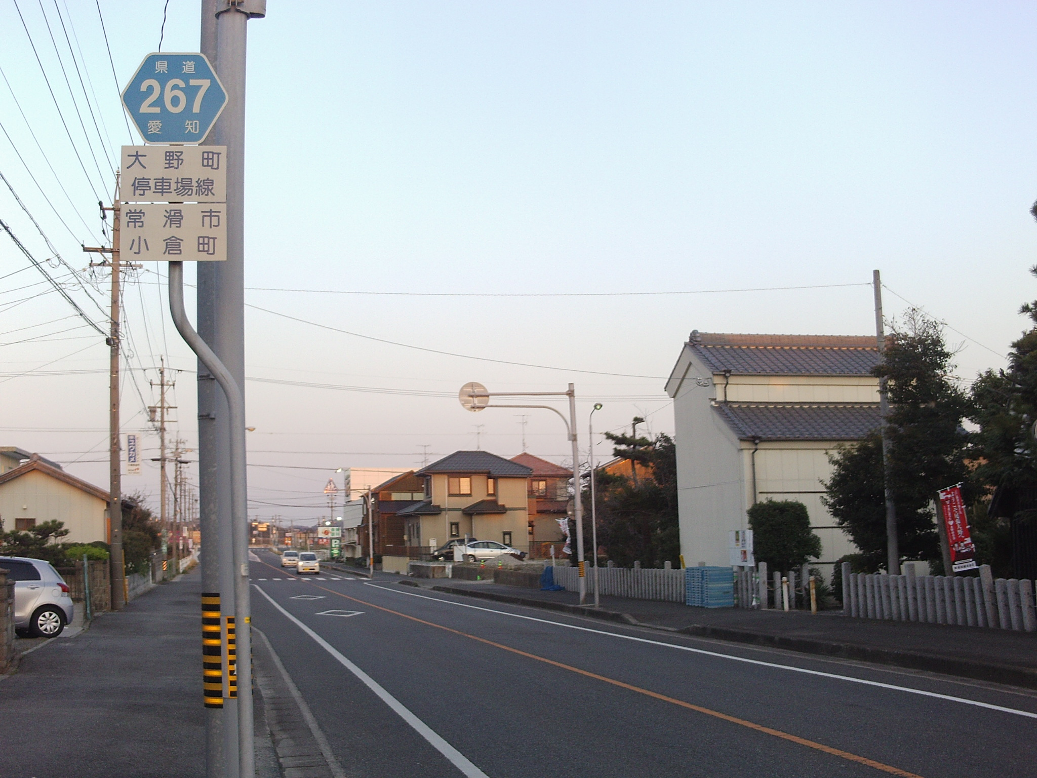 Aichi prefectural road No.267 in Oguracho, Tokoname, Aichi.